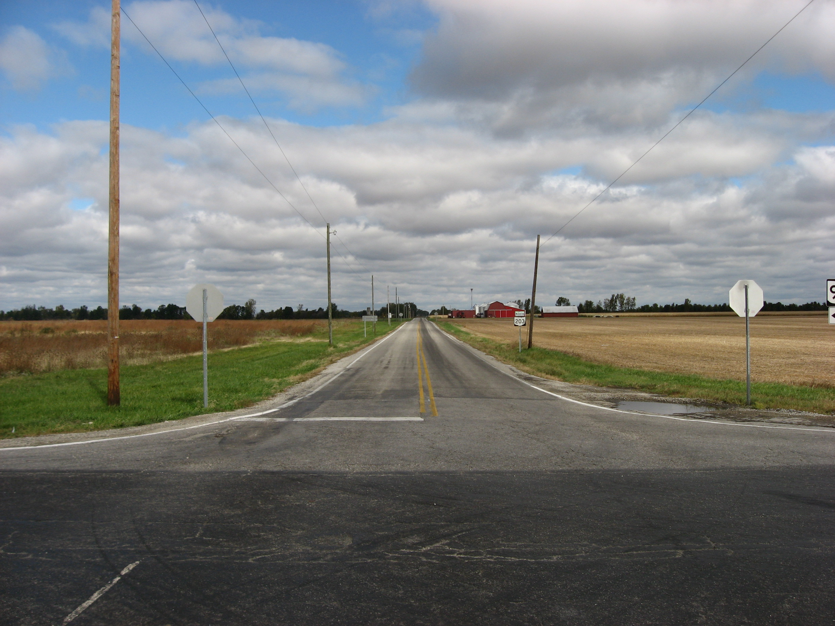 Northward along State Route 203 from its intersection with State Route 95 in Big Island Township, Marion County, Ohio, United States.